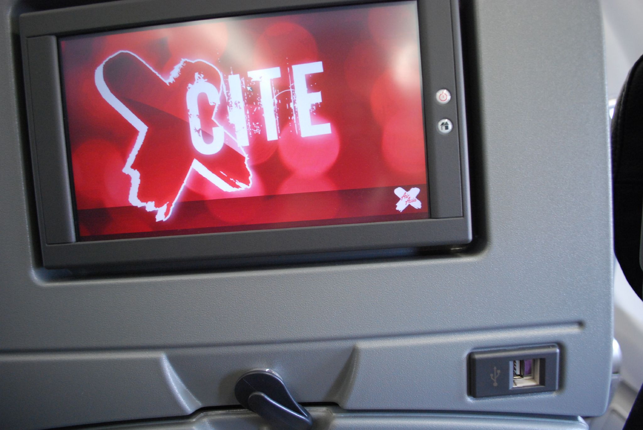 PTV inside AirAsia X.